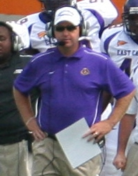 East Carolina University football coach Skip Holtz in 2007 game vs. Virginia Tech.